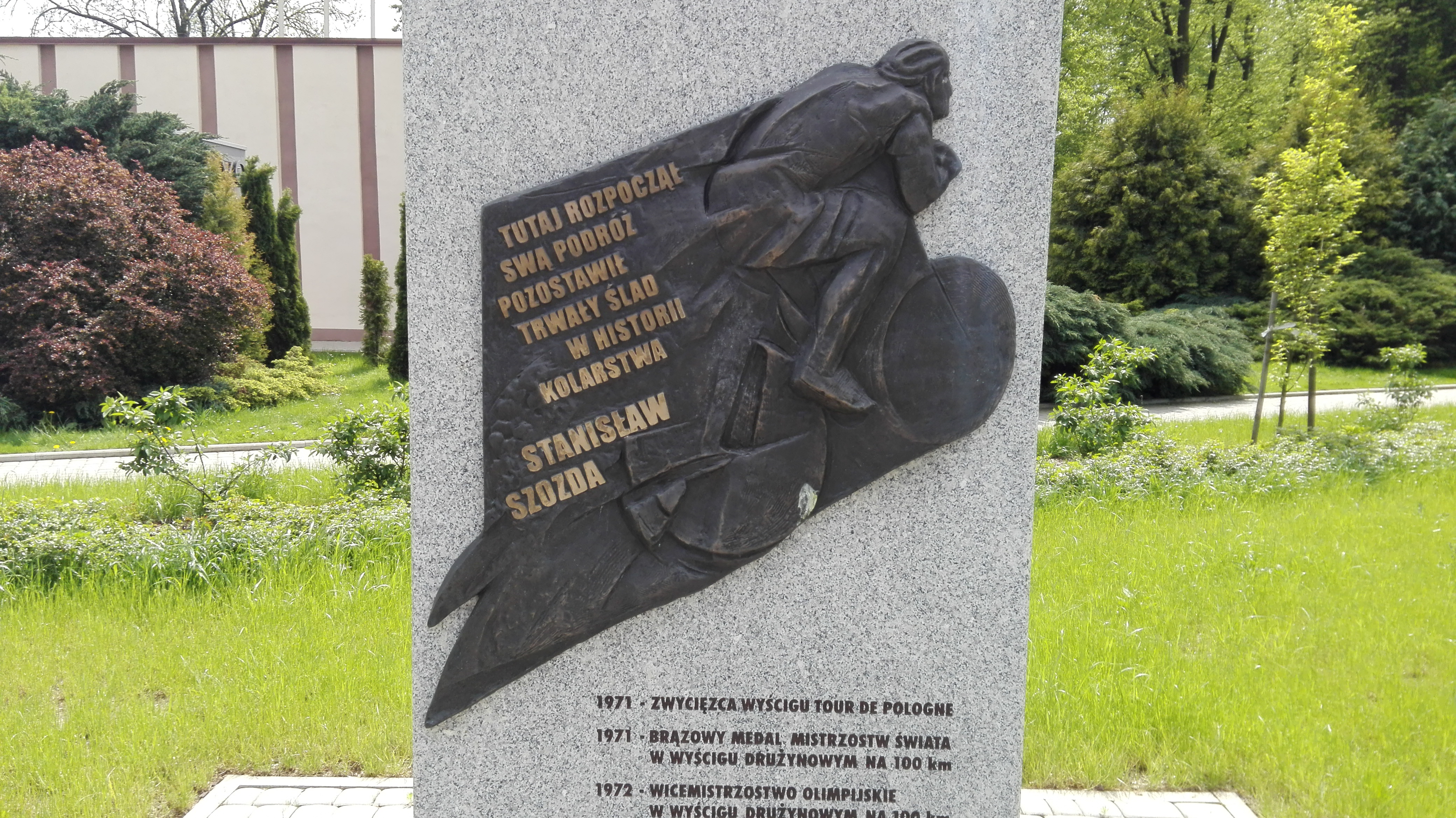 Monument of Stanisław Szozda; photographed in Prudnik